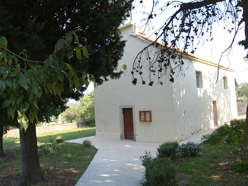 Saint Anton Village patron